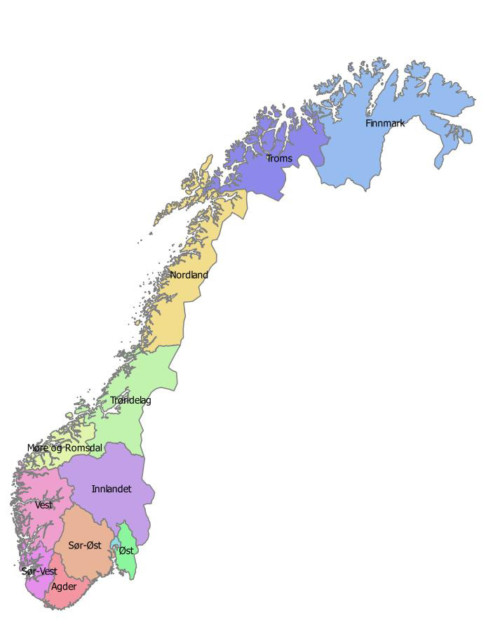 Map of Norway with the 2016 Police Disctricts.